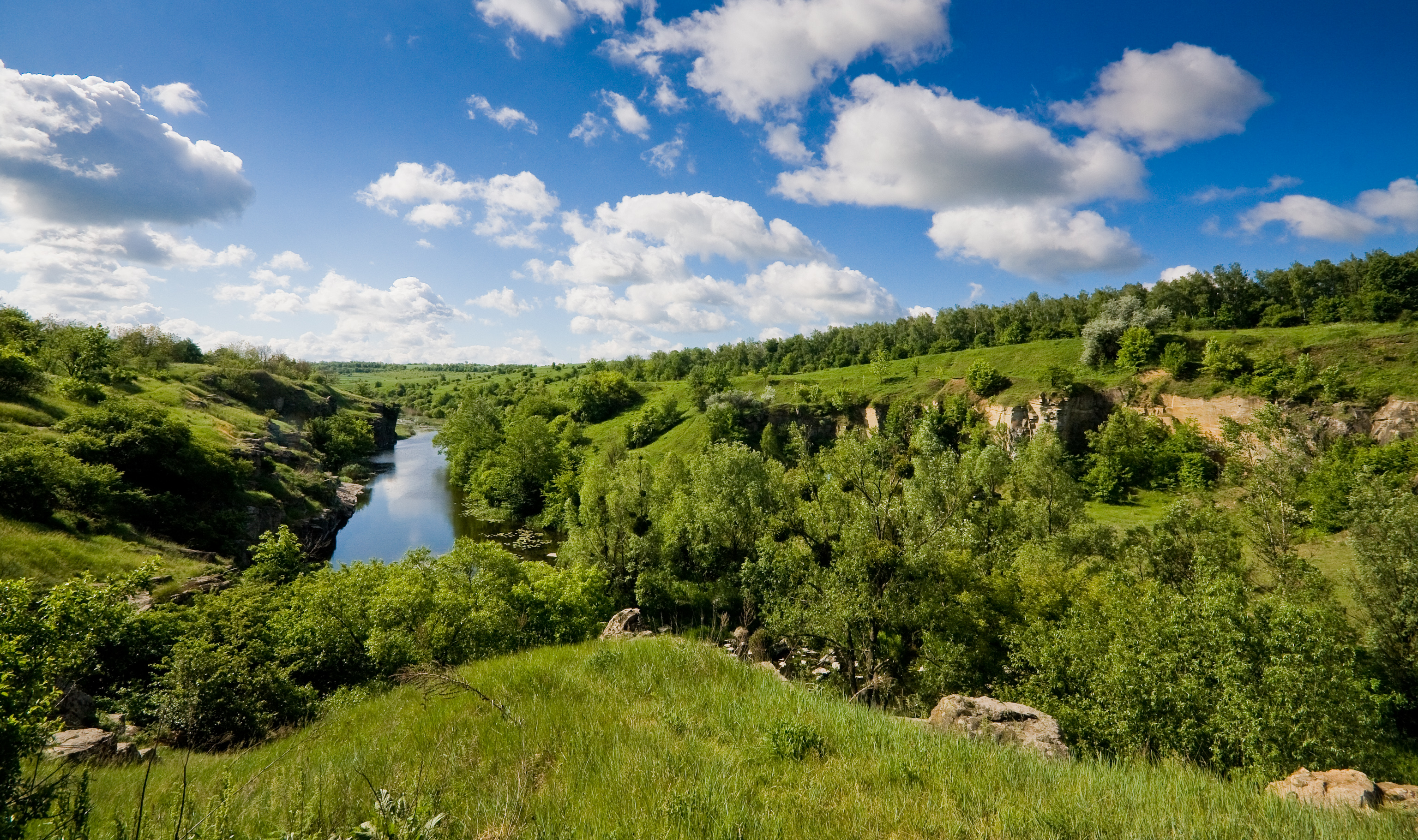 River Hirs'kyi Tikych (Ukraine, Cherkaschyna, Buky)